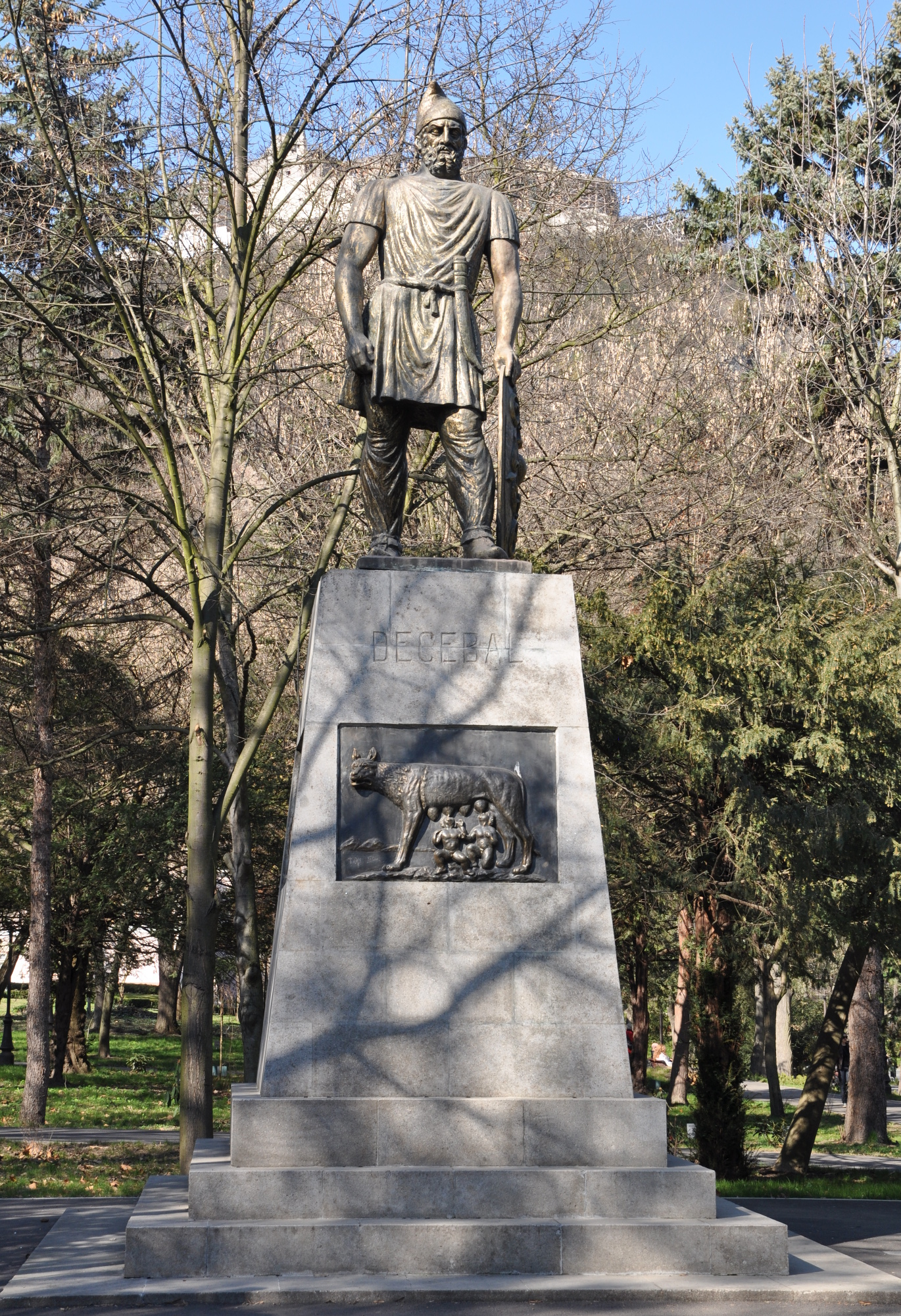 Statue of Decebal in Deva, Romania